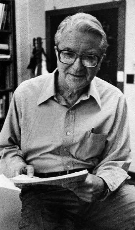 California Institute of Technology Professor Norman Horowitz